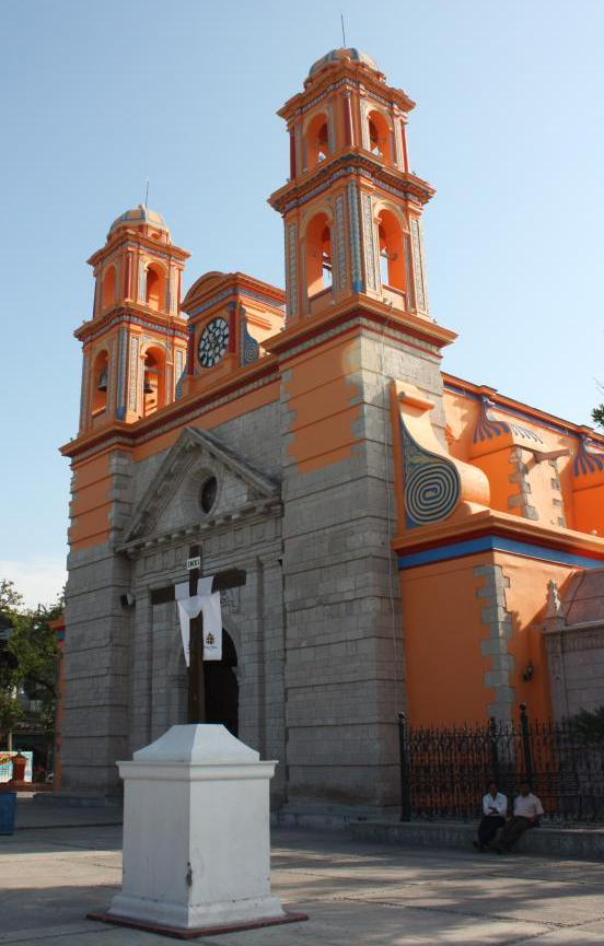 Saint Francis of Assisi Church, Iguala de la Independencia, Guerrero, Mexico